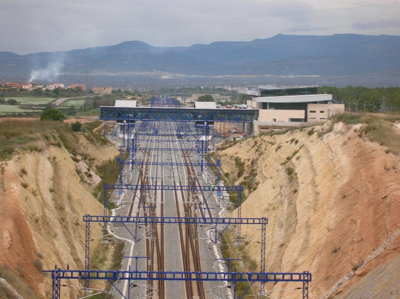 The railway station of Camp de Tarragona, looking west